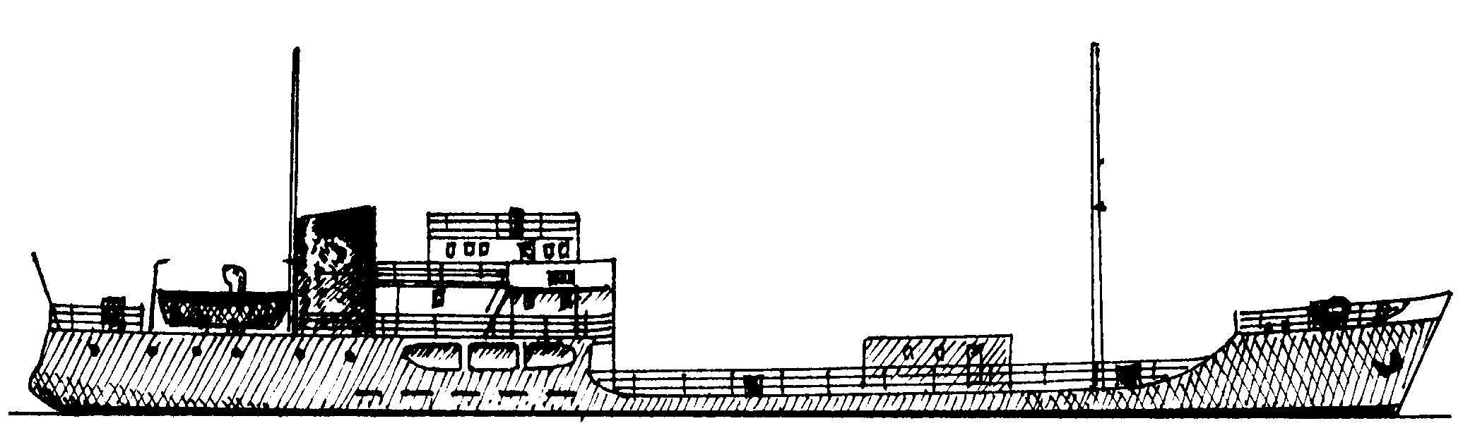 MT ROSITZ (as Harriet E)